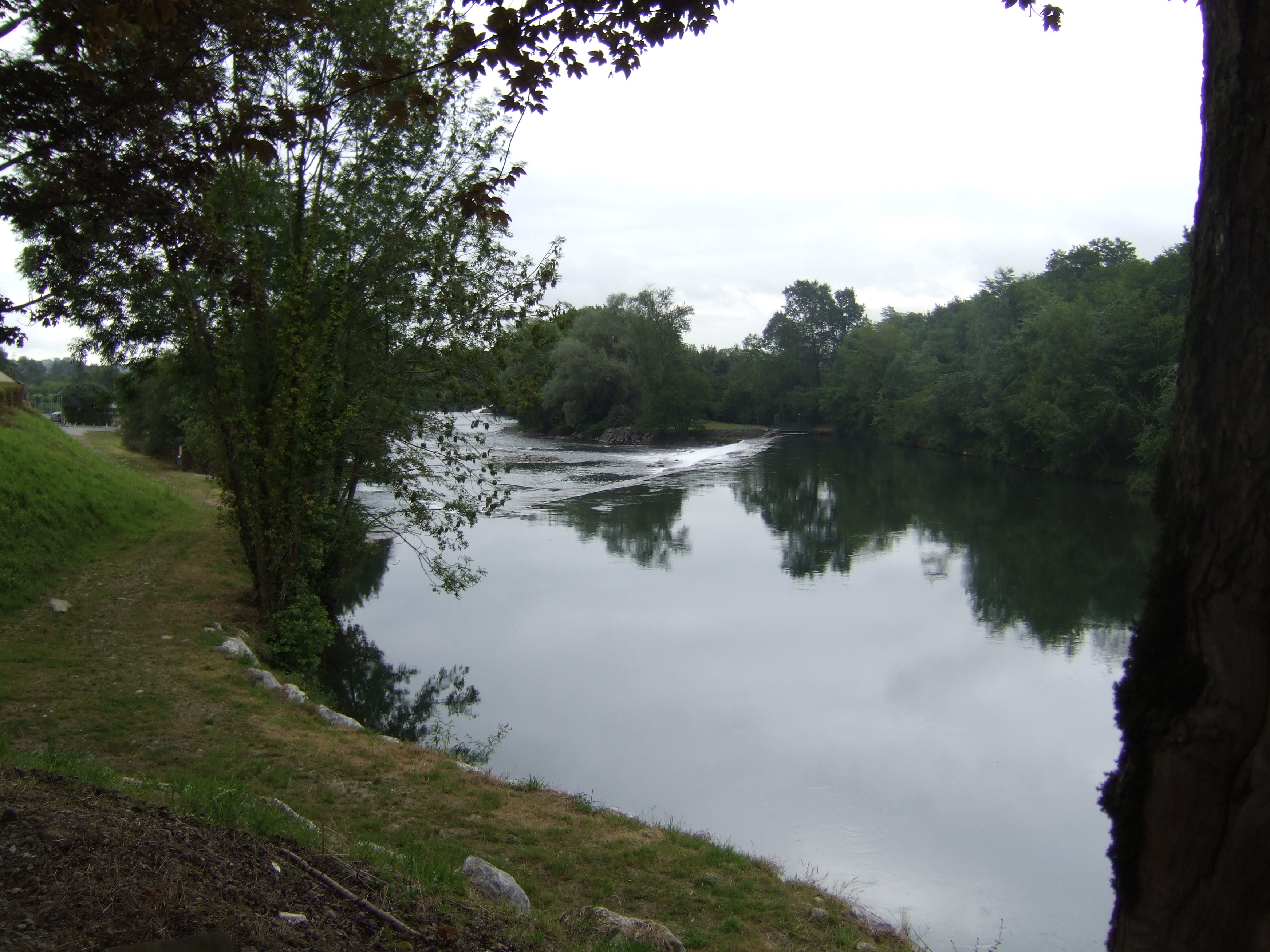 Gave-de-Pau river at Lestelle-Bètharram (France)